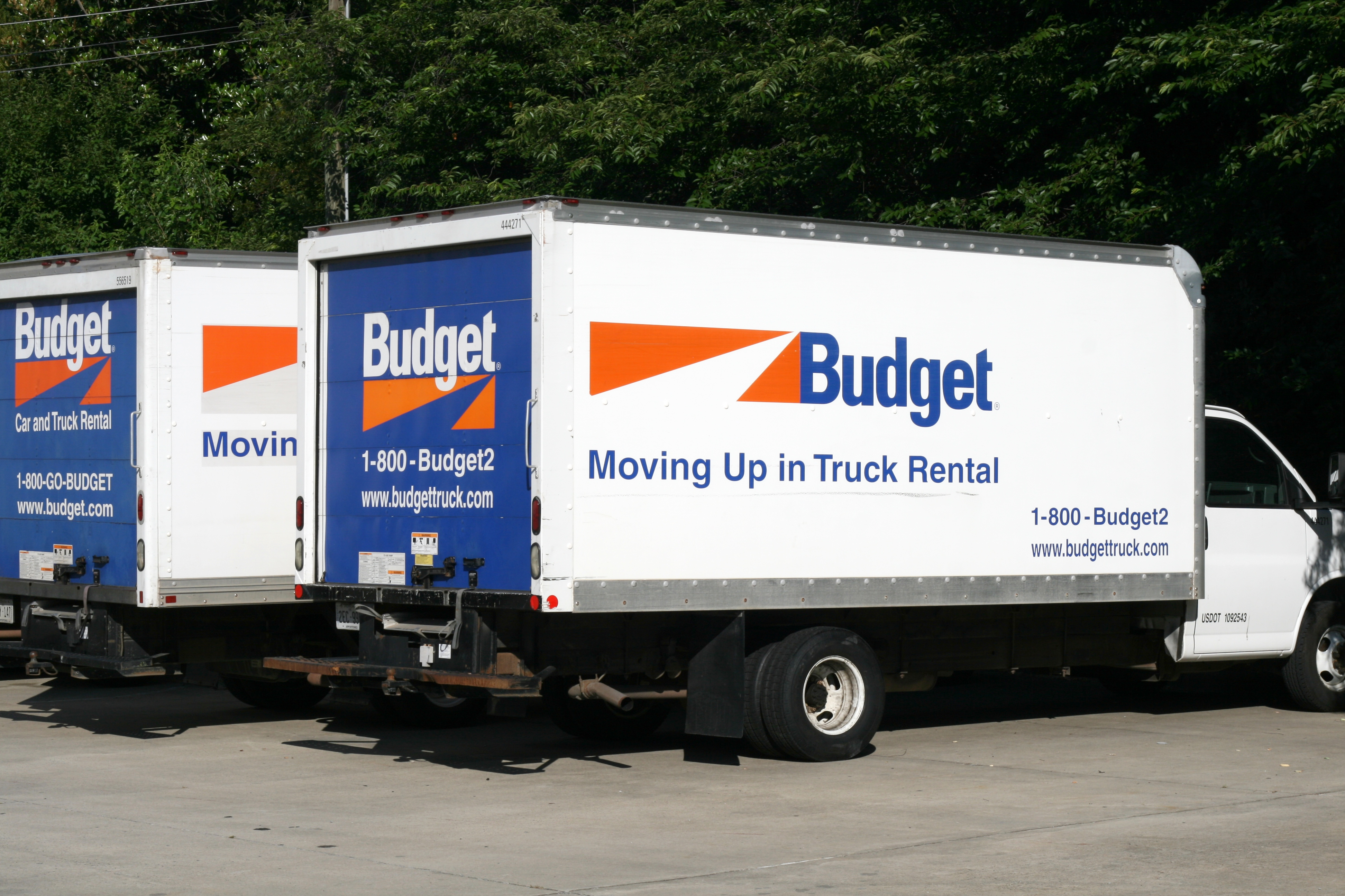 Two Budget Truck Rental box trucks parked behind Northgate Mall in Durham, North Carolina.